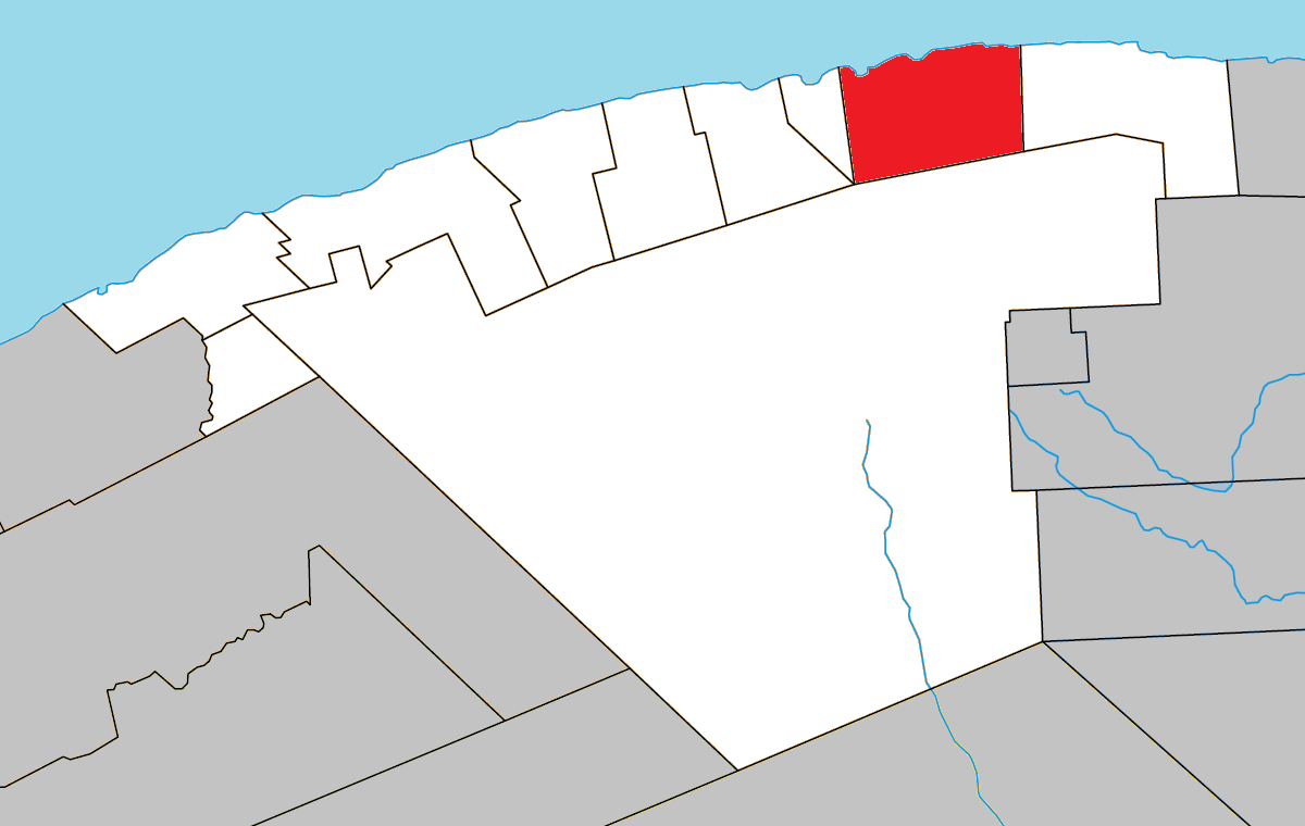 Location of Saint-Maxime-du-Mont-Louis, Quebec within La Haute-Gaspésie Regional County Municipality.